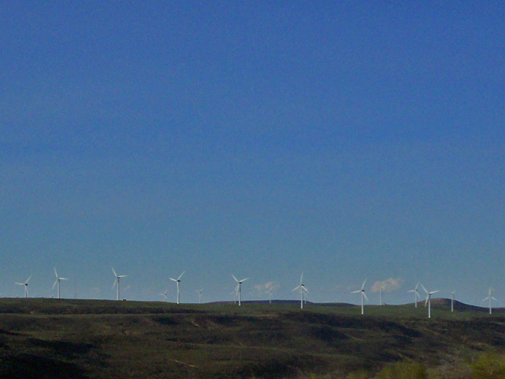 Wyoming Wind Energy Center in Uinta County, Wyoming. 80 Vestas V80-1.8MW wind turbines, total nameplate capacity 144 MW. Completed in 2003.